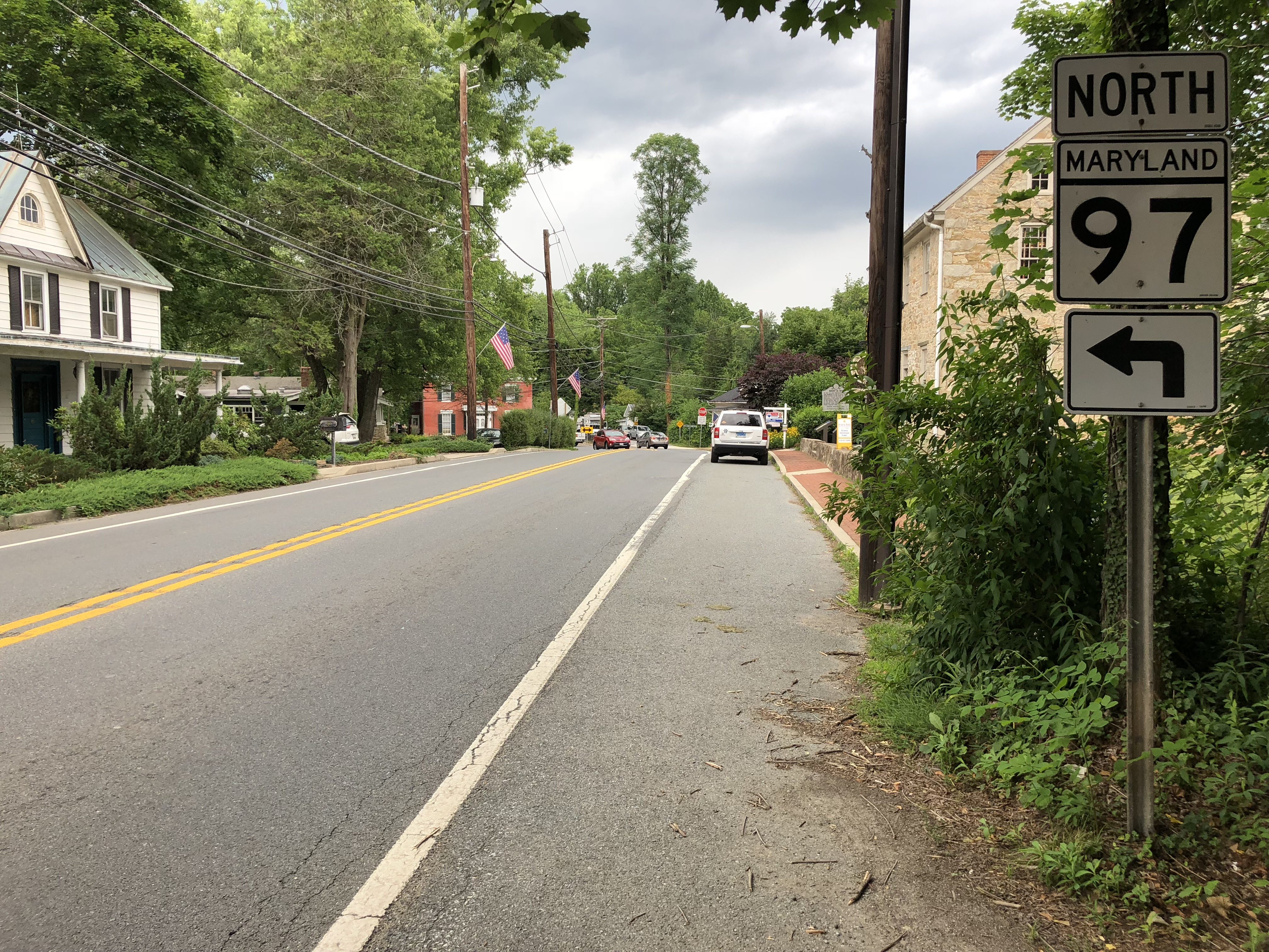 View north along Maryland State Route 97 (High Street) just south of Market Street in Brookville, Montgomery County, Maryland